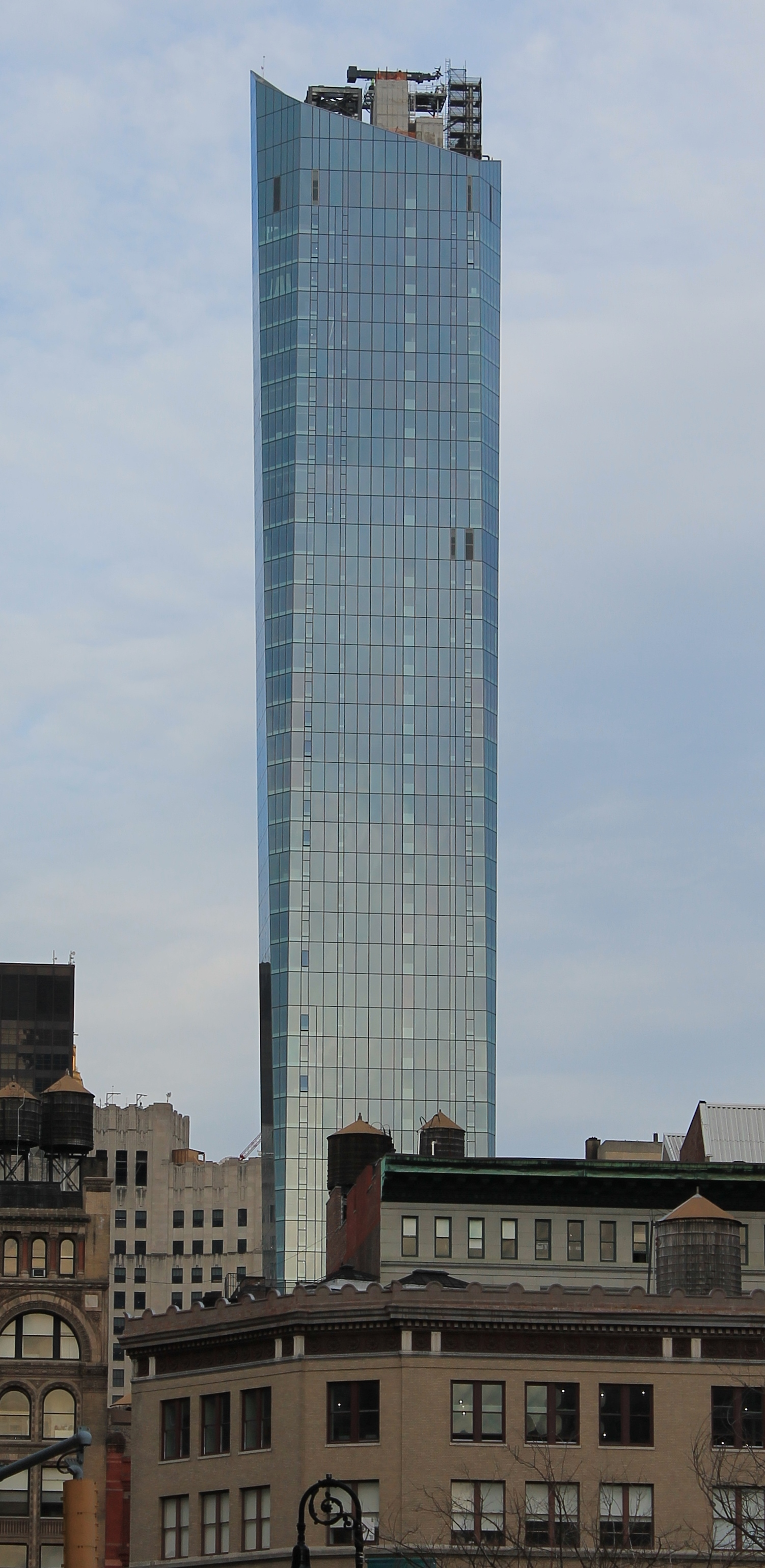 Madison Square Park Tower from Union Square.